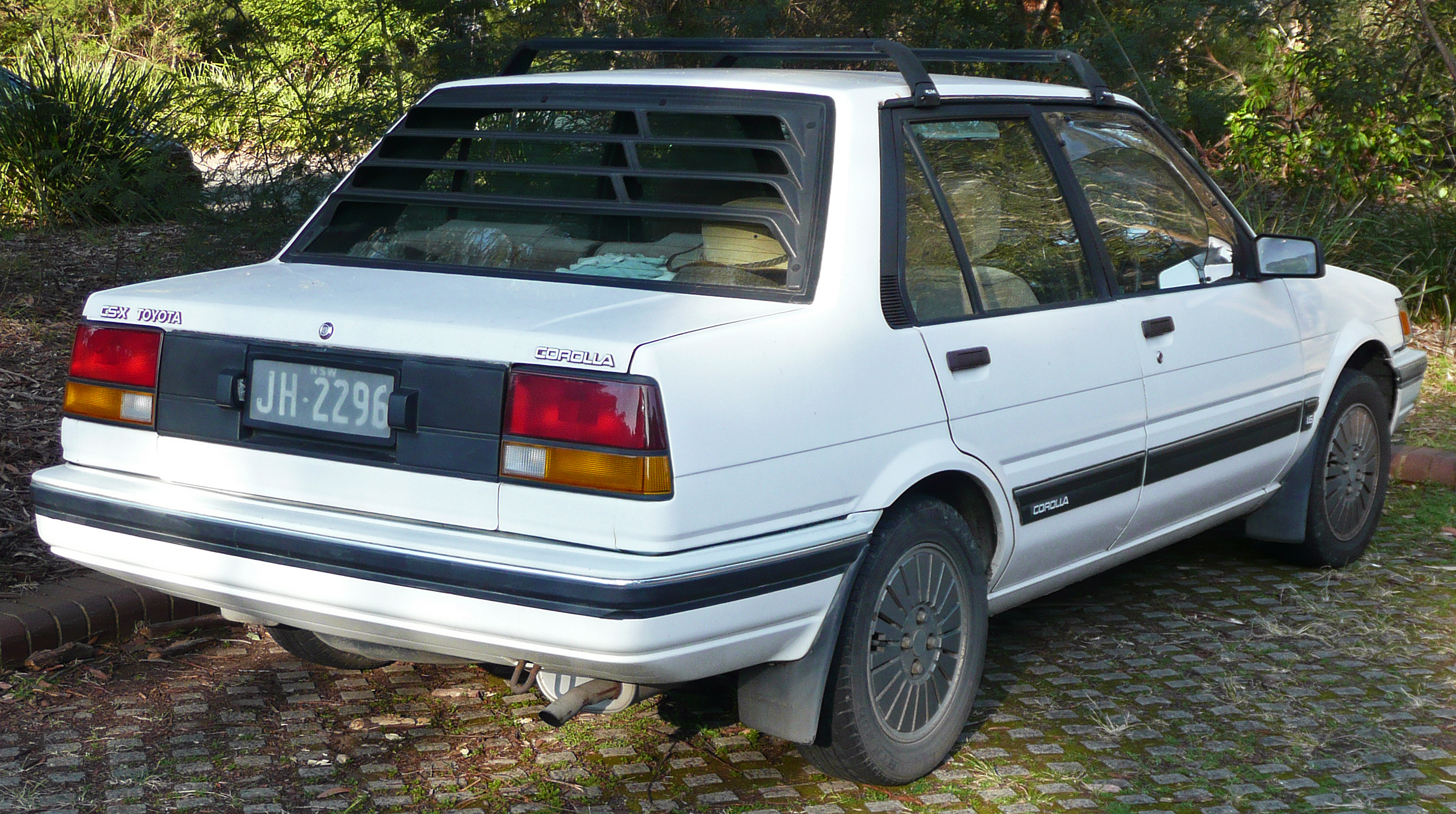 1987 Toyota Corolla (AE82) CSX sedan. Photographed in Audley, New South Wales, Australia.